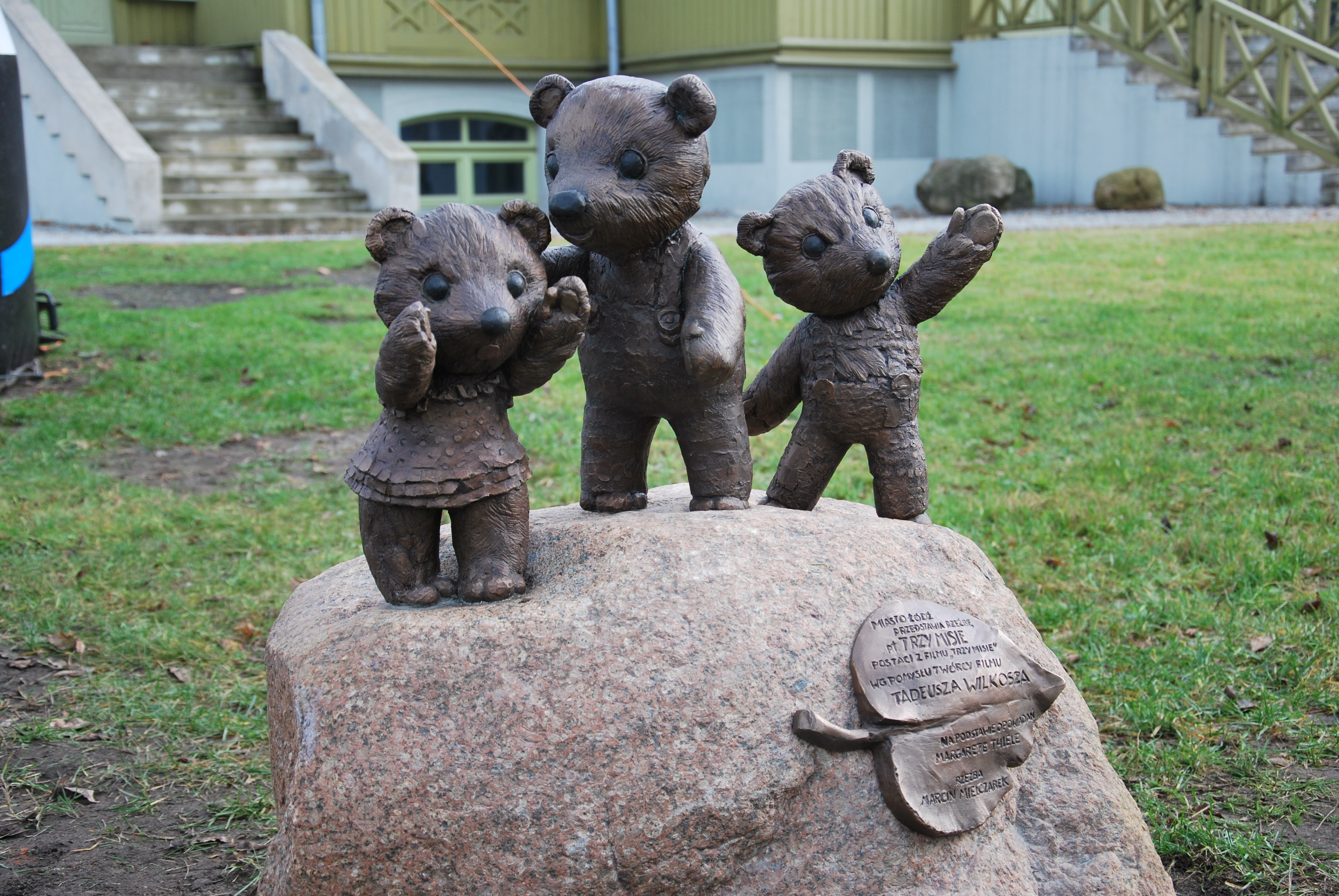 Three Bears Sculpture, Łódź